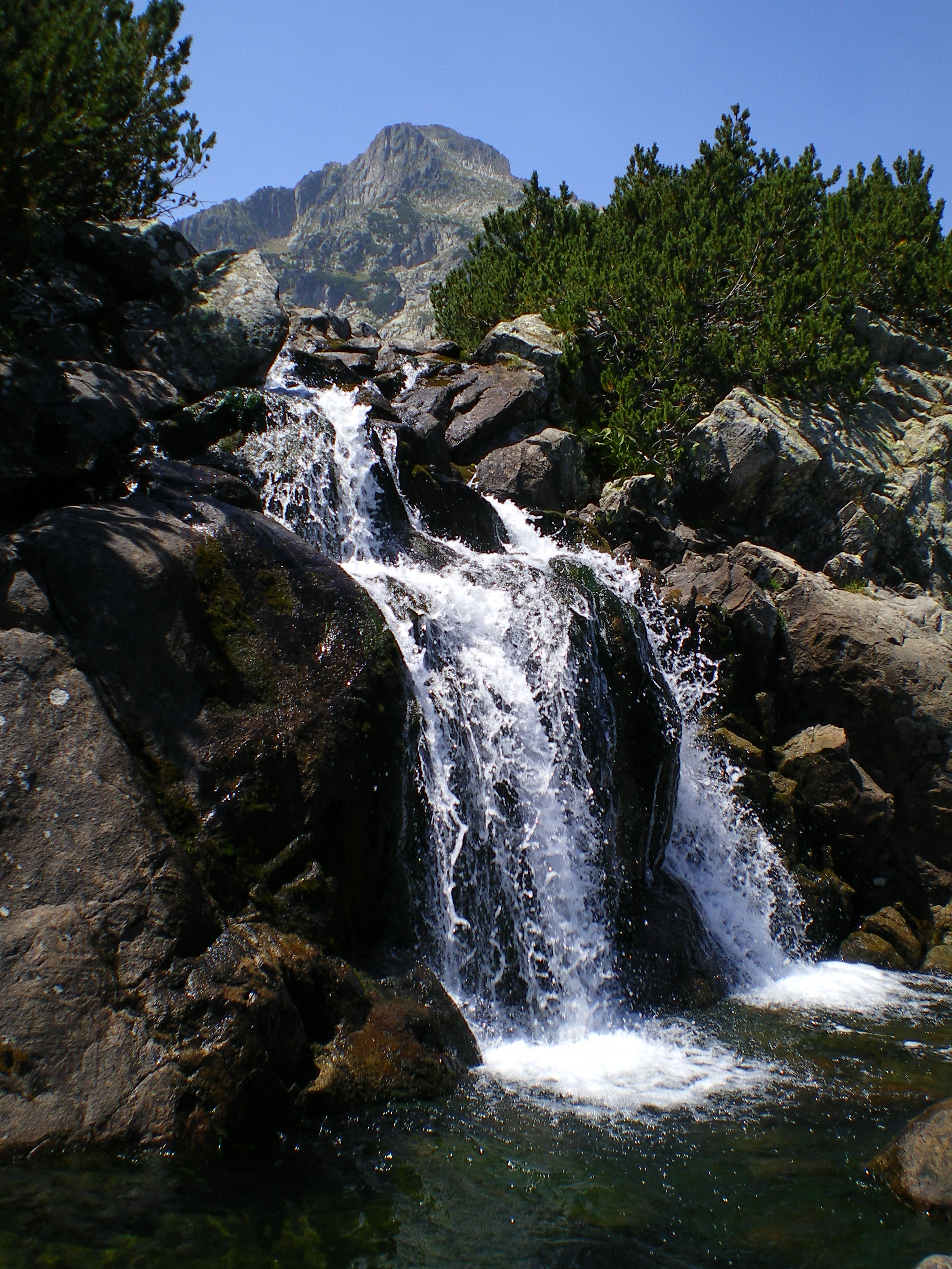 Waterfall near Popovo lake, Pirin, Bulgaria